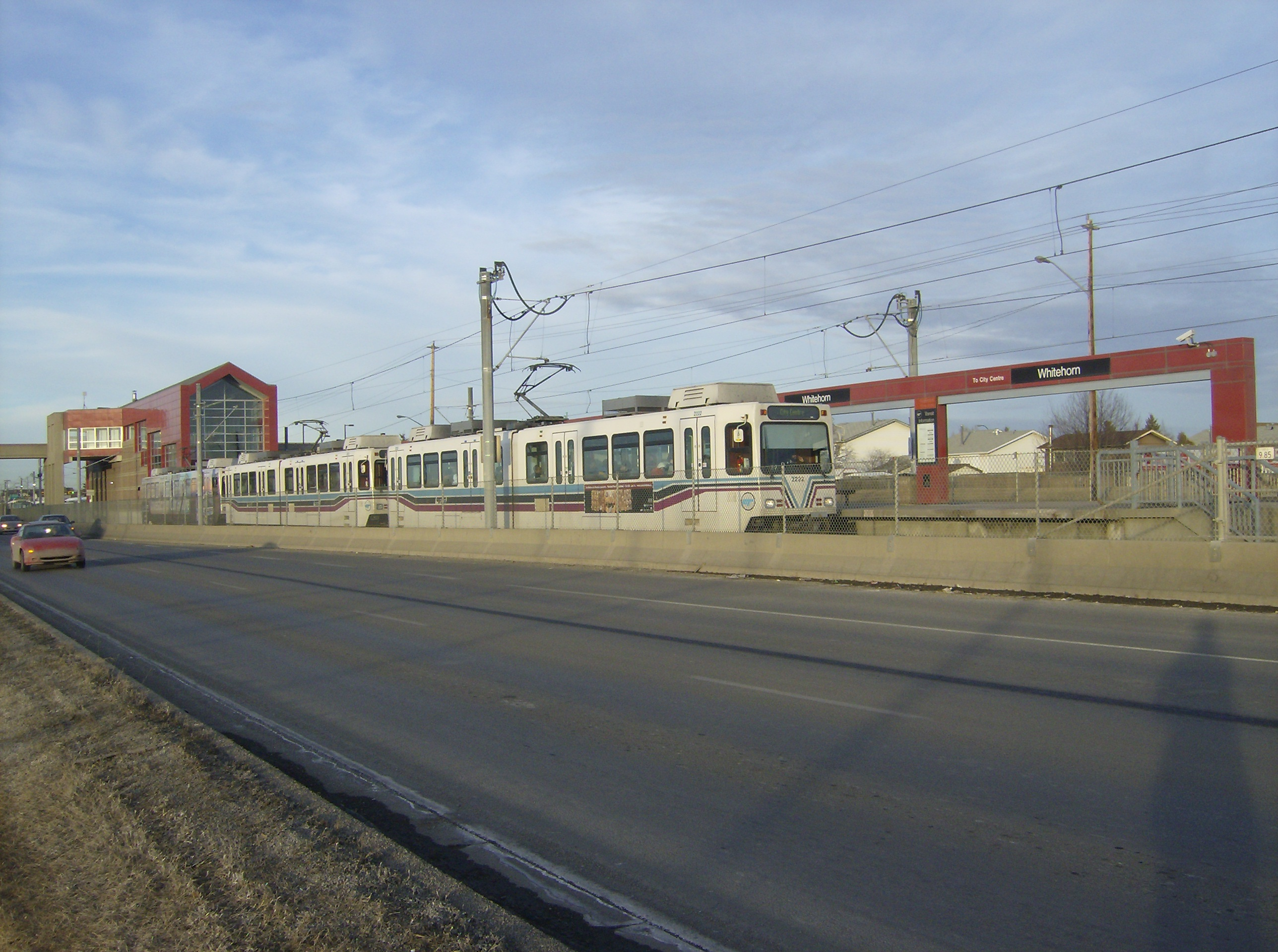 Whitehorn (C-Train) LRT station operated by Calgary Transit in Calgary, Alberta, Canada. The station is in the median of 36 Street NE. The photographer is on the West side of 36 Street, facing North, and slightly East. The Whitehorn train is parked at the station, which is the terminus for the North East line.